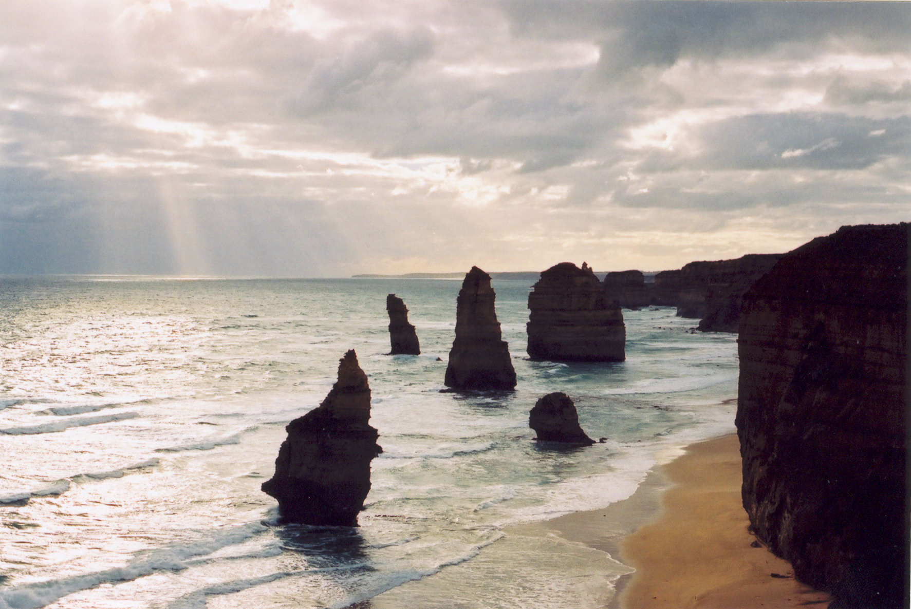 The Twelve Apostles Victoria Australia